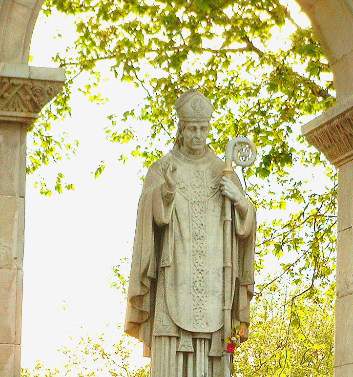 San Prudencio sculpture, Armentia